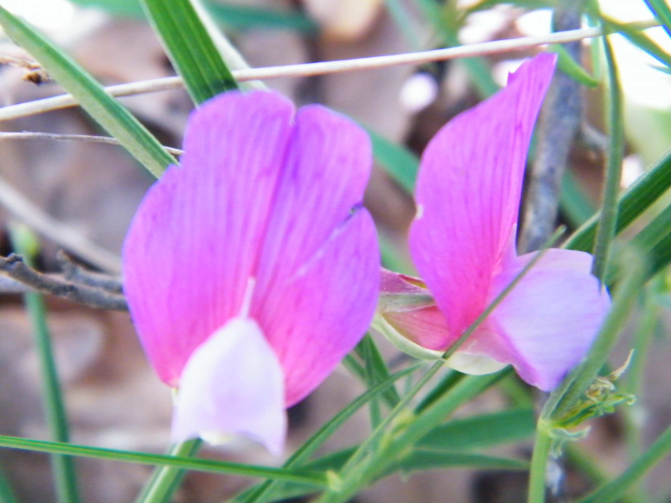 Lathyrus digitatus in Laspi Чина пальчаста в районі бухти Ласпі